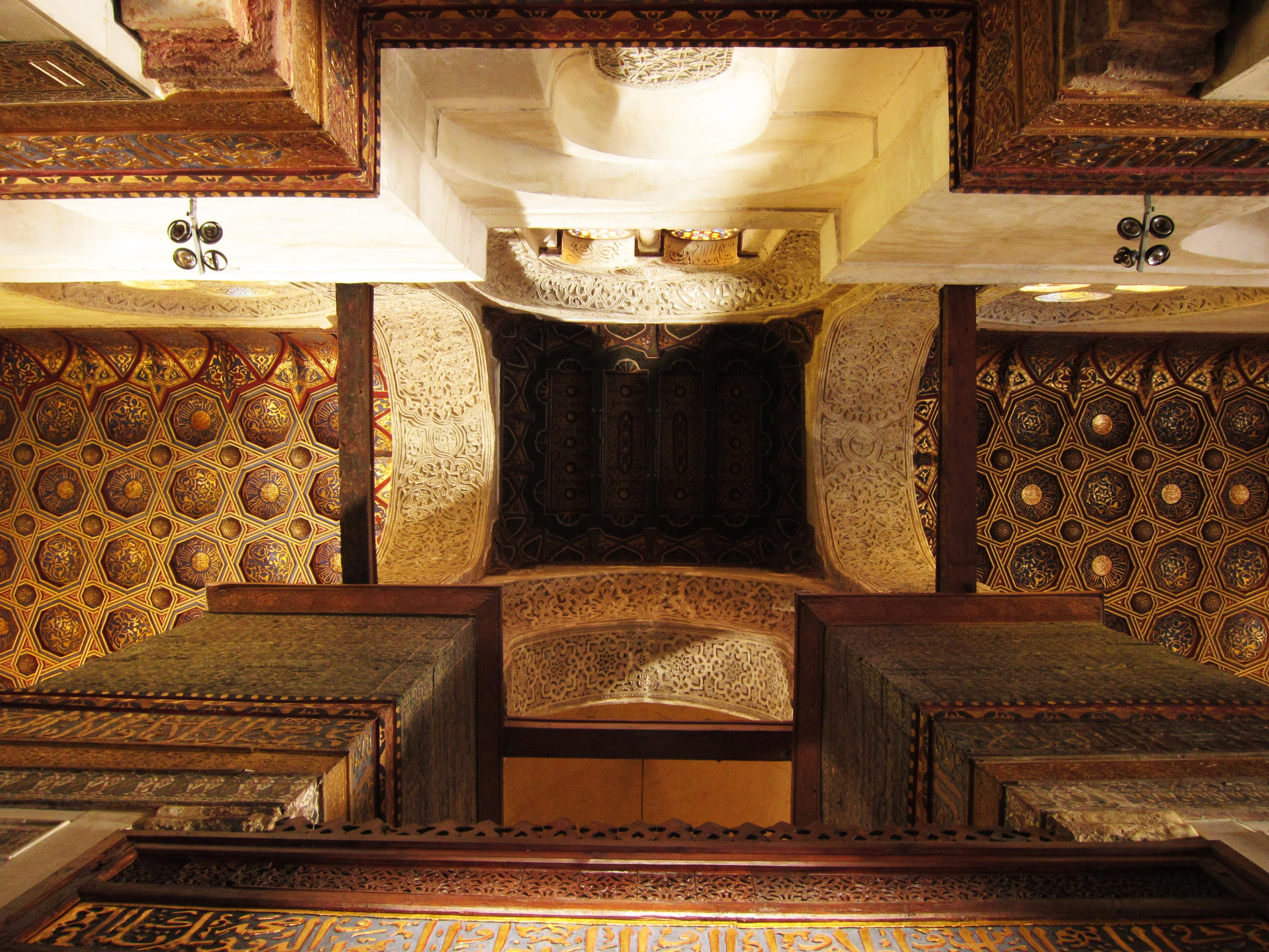 The complex of Sultan Qalawun was built for the sultan by Amir 'Alam al-Din Sanjar al-Shuja'i in 1284-5 and consisted of the founder's mausoleum, madrasa, and a maristan (hospital). The complex was located on al-Mu'izz Street. The mausoleum's central, domed plan is connected to the madrasa by a long entrance passage, and the plan of both spaces is shifted to accommodate the qibla orientation. The mausoleum, which is separated from the madrasa by this long corridor, is accessible via a small courtyard surrounded by an arcade with shallow domes. The octagonal structure was roofed by a dome which was destroyed in the 18th century. The current concrete dome, which is a replica of that covering the Mausoleum of al-Ashraf Khalil ibn Qalawun (1288), was built by Max Herz Bey in 1903. The octagonal base is transformed into a circle by means of wooden muqarnas. The elaborate interior decoration includes marble revetment, carved, painted, and gilded wood, carved marble, and stucco. Source